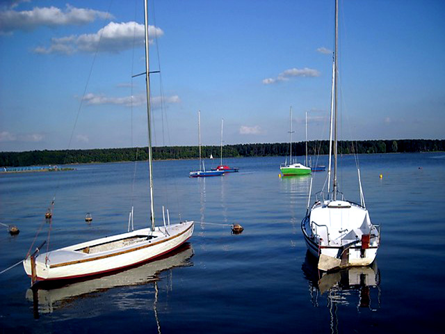 Zemborzycki Lake in Lublin (Poland)